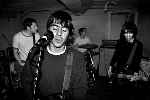 The Van Pelt performing on 06/11/97 at the 13th Note in Glasgow. Chris Leo (vocals, guitar) is in the foreground, and Toko Yasuda is on bass on the far right.